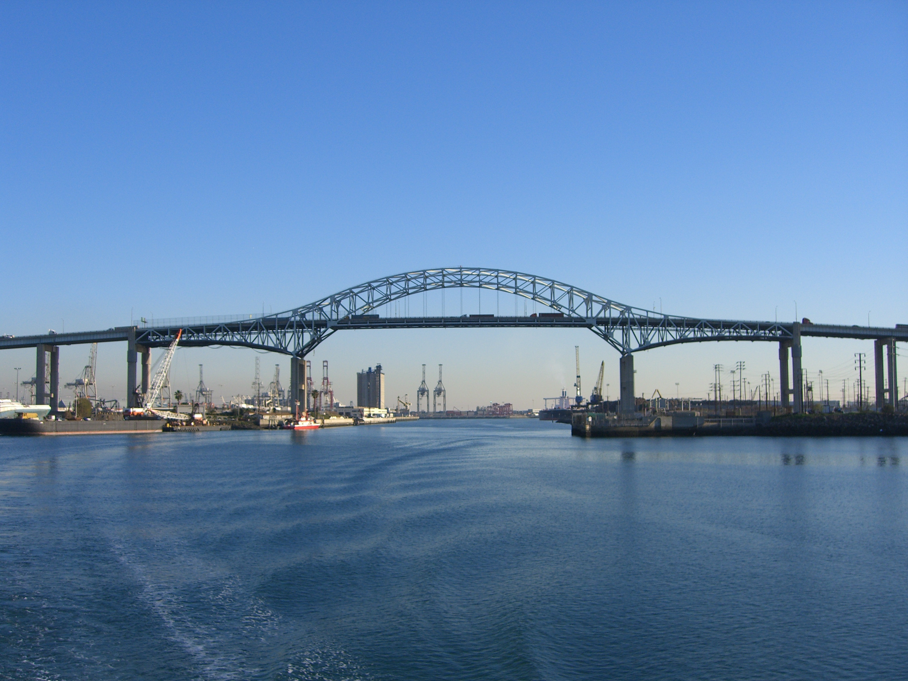 Gerald Desmond Bridge — the Long Beach Freeway crossing at the Port of Long Beach, Los Angeles County, Southern California.